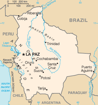 Bolivia map from CIA World Factbook (since 2 June 2004), converted from original GIF format